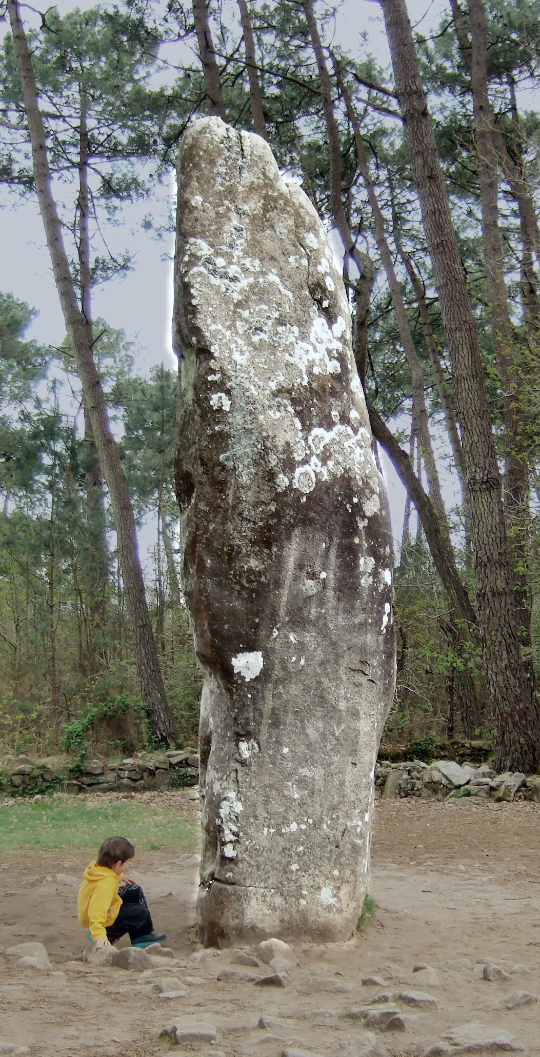 The "Géant du Manio", a huge menhir of the Carnac stones, near the Manio Quadrilateral. Taken by me.